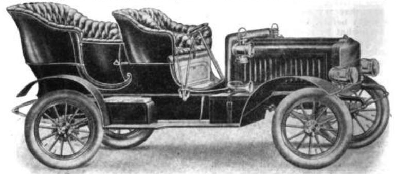 1906 Lambert model 7 automobile